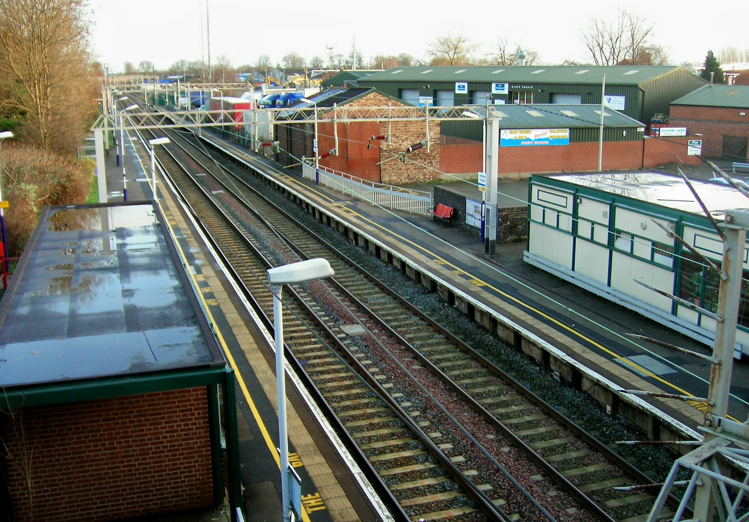 Holmes Chapel railway station. View looking north. Taken from the A54's bridge over the line